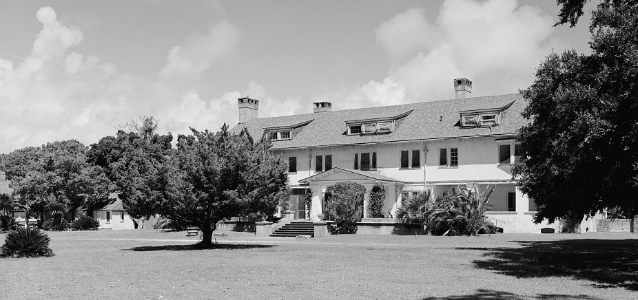 Stafford Plantation mansion — on Cumberland Island, Georgia. Image: HABS—Historic American Buildings Survey of Georgia.